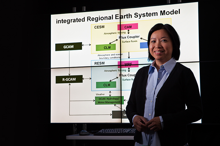 Building accurate, intricate computer models that allow scientists and stakeholders to understand the interplay between Earth, water, clouds, and atmosphere is what Dr. Ruby Leung does at Pacific Northwest National Laboratory. She conducts cutting-edge research and refines models that are vital to predicting climate and understanding the impact of energy policies, new technologies, and our changing climate. As an example, to better simulate climate change effects on hydrologic conditions over mountain watersheds, she developed a unique framework for modeling the regional coupled atmosphere and terrestrial systems. She also applies regional climate models to study hydroclimate processes and climate extremes, and the aerosol effects on regional climate and hydrological cycle. She received her M.S. and Ph.D. in atmospheric science from Texas A&M University. She earned a bachelor's degree in physics and statistics from Chinese University of Hong Kong, where she was the only woman in her graduating class of the physics department. Ruby is an outstanding mentor. She works closely with early career scientists and provides them with opportunities to develop new ideas and excel. She also participates as a mentor to many people through the lab's scientist and engineer development program. Read her full story at